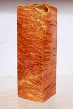 Image of sawn heartwood burl of Australian coolabah tree (Eucalyptus coolabah)